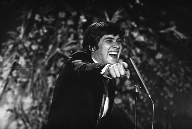 Gianni Morandi sul palco del Festival di Sanremo 1972